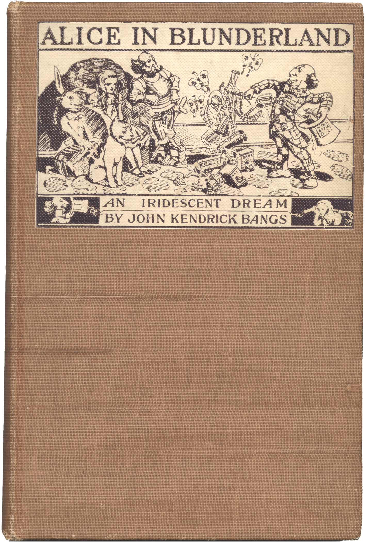 Book cover of Alice in Blunderland: An Iridescent Dream, a political parody novel of Lewis Carroll's two books, Alice's Adventures in Wonderland and Through the Looking-Glass, which is critical of economic issues such as taxation, corporate greed, and corruption.